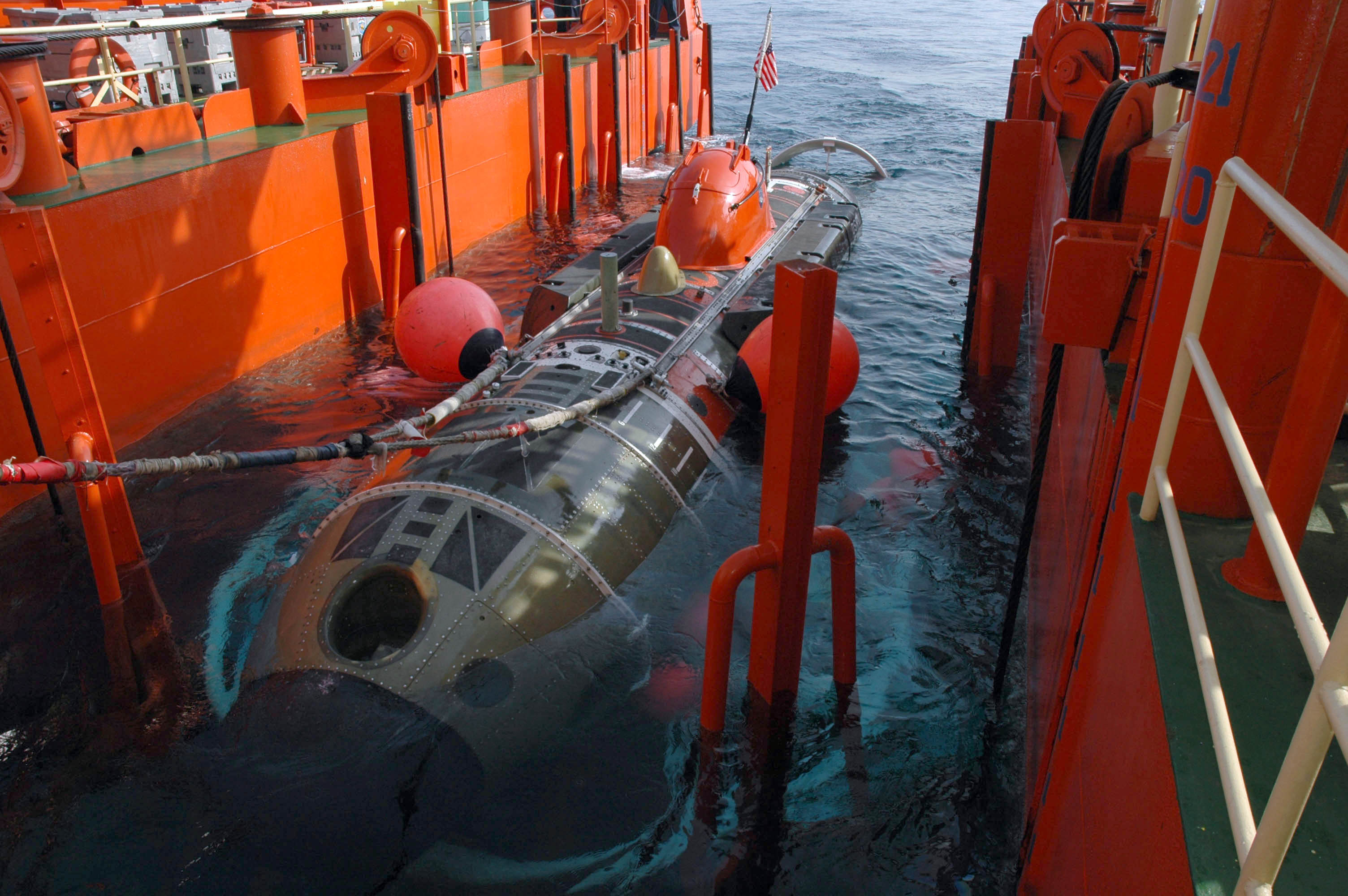 Pacific Ocean (Dec. 14, 2005) - Russian Federation Navy Delegation crewmembers of Deep Submergence Rescue Vehicle Mystic (DSRV-1) conduct pre launch checks off the coast of Southern California. Russian Navy officers visited Deep Submergence Unit (DSU) to observe Mystic conduct recovery training. U.S. Navy photo by Photographer's Mate 3rd Class Timothy F. Sosa (RELEASED)